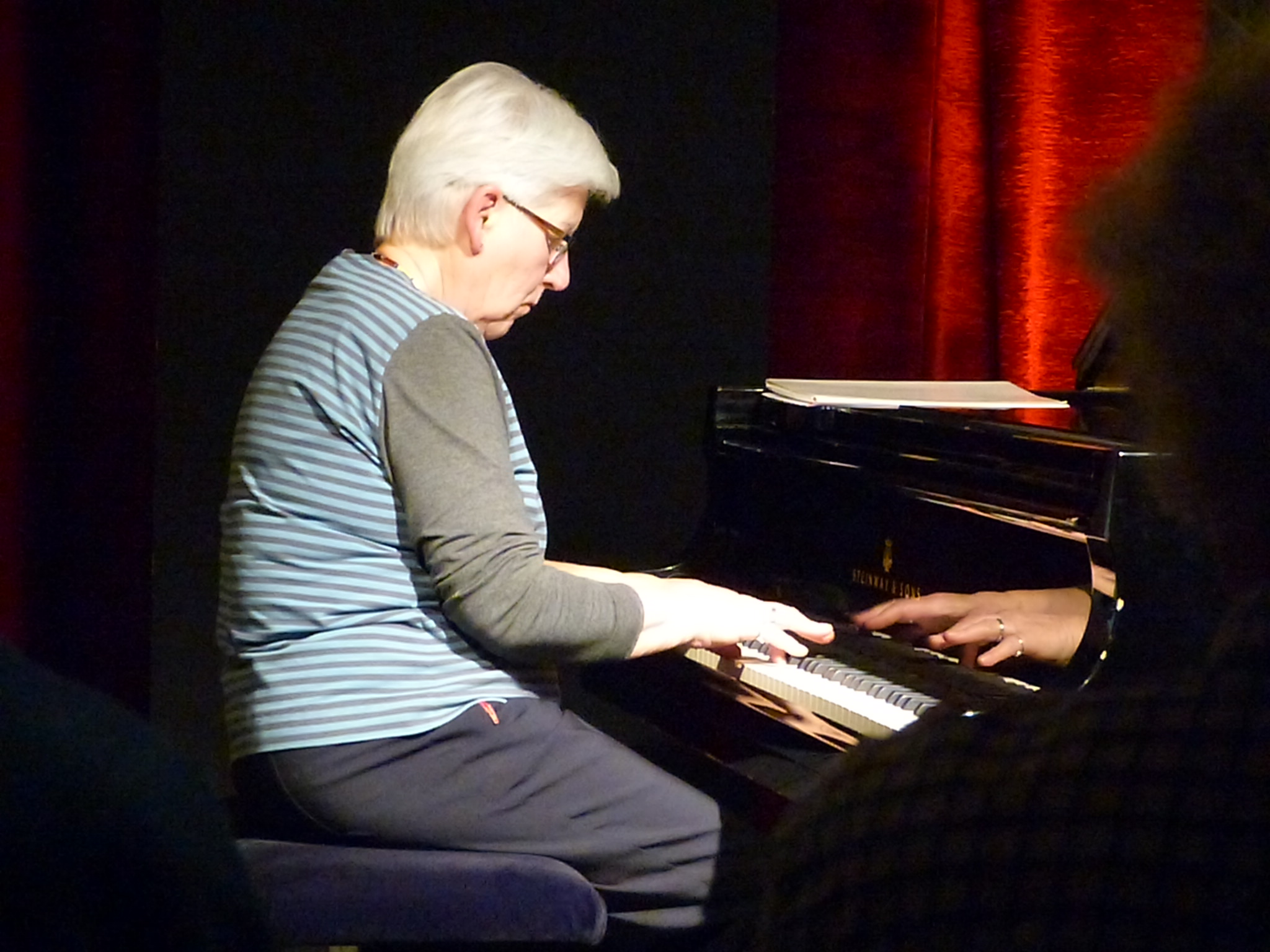 Irene Schweizer in the concert at Loft (Cologne), Germany, February 7th, 2014